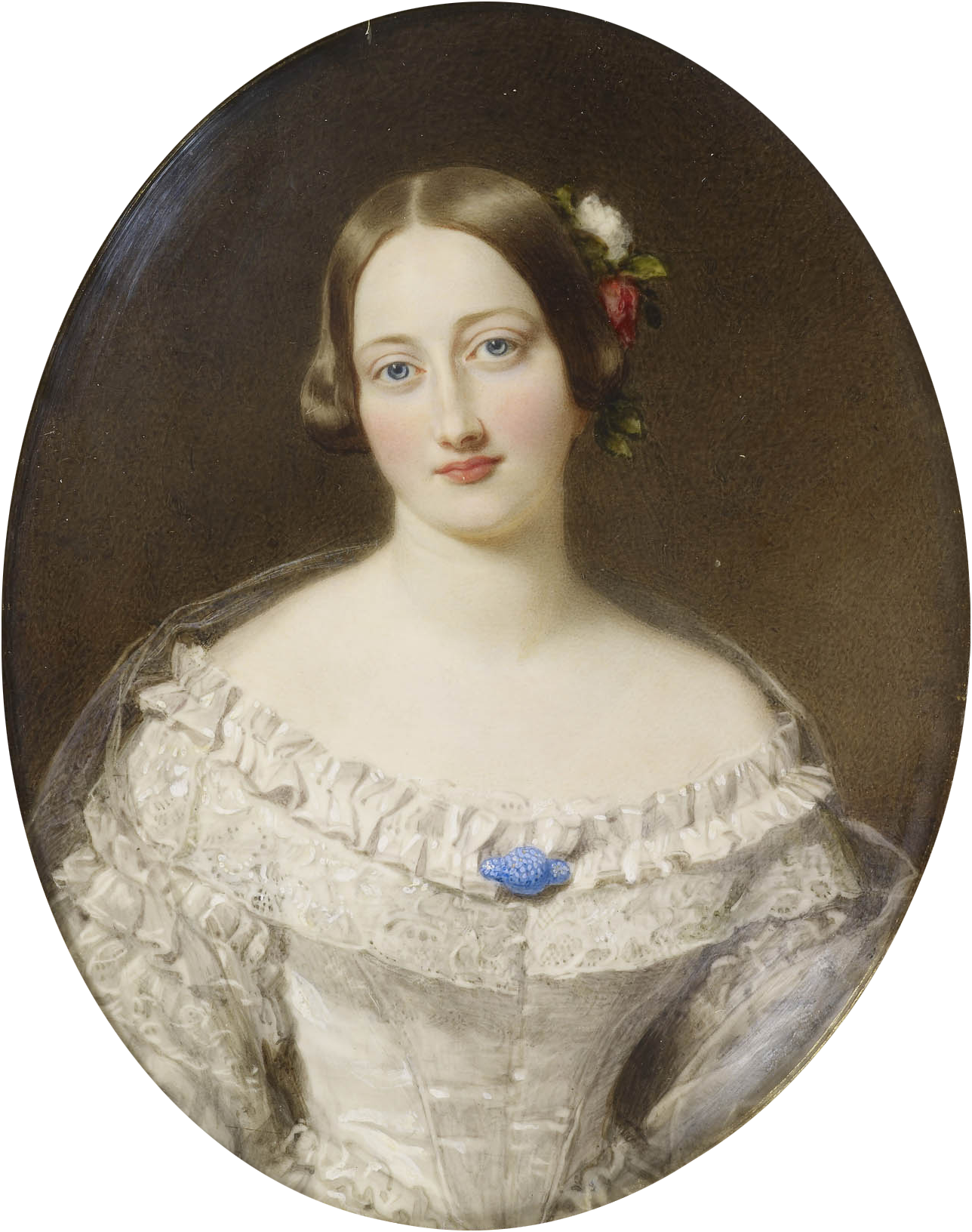 Alexandrine of Baden, Duchess of Saxe-Coburg-Gotha (1820-1904) Queen Victoria witnessed several of the Duchess of Coburg’s sittings to Sir William Ross during the Duke and Duchess’s stay at Buckingham Palace from 6 February until 4 March 1848: ‘Went later in the morning to sit with Alexandrine, whilst Ross was painting her’, she reported on 11 February (RA QVJ); ‘I again kept Alexandrine company when she sat to Ross’ (12 FebruaryFebruary); ‘Sat with dear Alexandrine, whilst she was being painted by Ross’ and ‘I sat with dear Alexandrine whilst Ross finished her miniature’ (1 March). Two copies of the miniature were painted for the Duchess by Ross. One was set in a bracelet and given by her to the Duchess of Kent; the other, which she gave to her husband, is now in the Veste Coburg. The Duchess found herself unable to meet the cost of the miniatures and her expenses were defrayed by Queen Victoria. Another miniature of ‘H.S.H. the Duchess of Saxe-Coburg’ remained in the artist’s studio at his death and was exhibited by his executors at the SA 1860 (no. 65). Queen Victoria's version of the miniature was well received when exhibited at the RA in 1848: it was thought to have been ‘treated with breadth and endowed with the easy natural movement of life’ (Art Union, 1848, X, p. 179). Ross also painted a watercolour of the Duchess at the same time (913820; Royal Collection). The pose, tilt of the head and costume are very similar to those in the miniature, the only difference being the substitution of the roses for the wreath in the hair. During the Duchess’s visit Queen Victoria wrote to her uncle, Leopold I, King of the Belgians: ‘Alexandrine is really a most dear aimiable [sic] character whom one must love dearly’ (RA VIC/Y 199/89). Signed, dated and inscribed on the reverse in grey wash: Painted by Sir WC Ross R.A. / Miniature Painter to The Queen. / 1848 and inscribed in ink by another hand: Alexandrine of / Baden, Duchess of / Saxe-Coburg & Gotha.